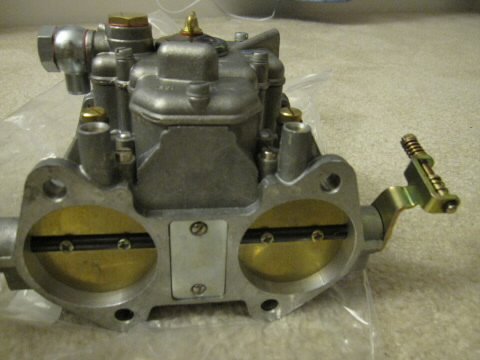 Weber 55DCO carburetor throttle